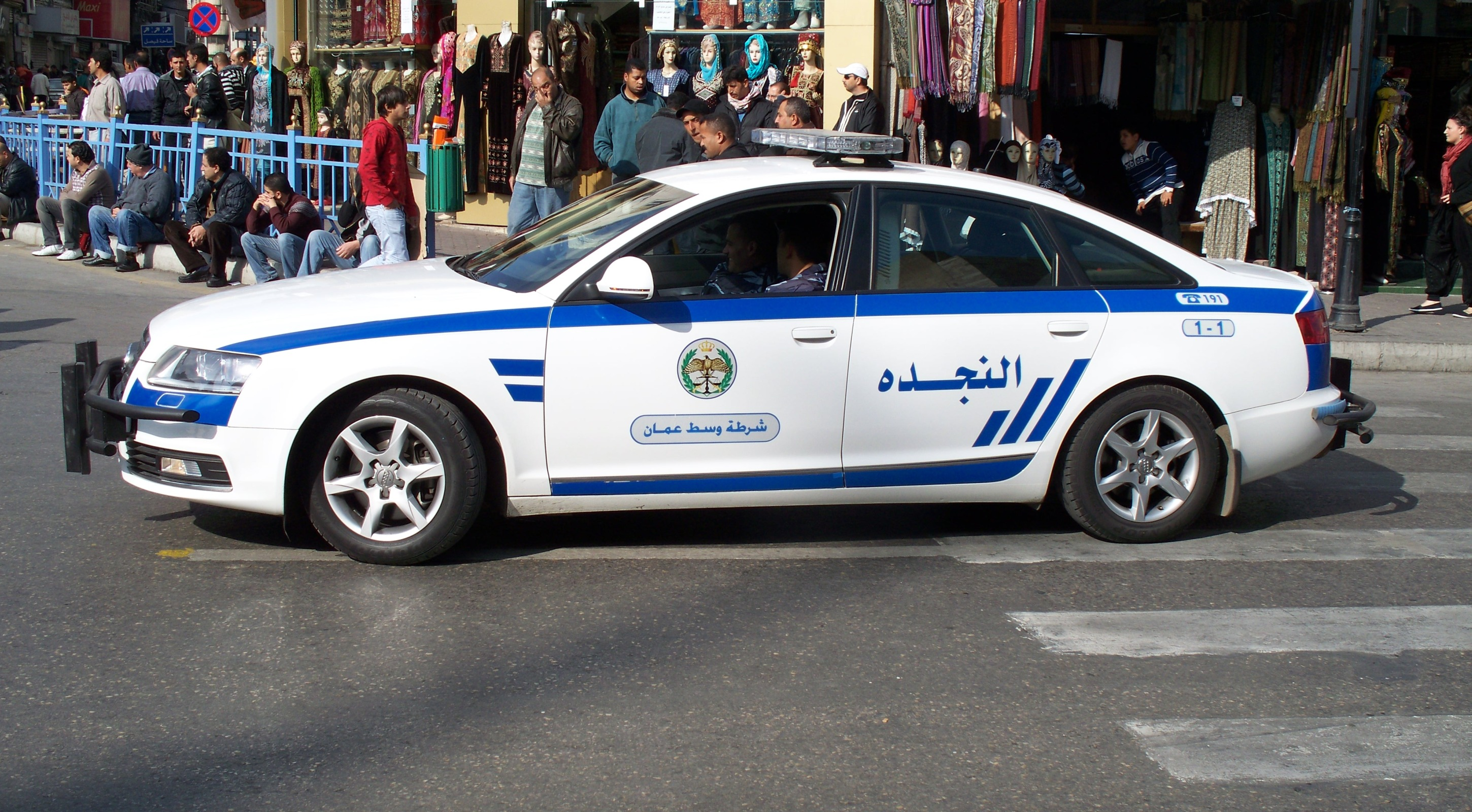 Jordanian Police Audi A6 C6 sedan in Amman, Jordan.